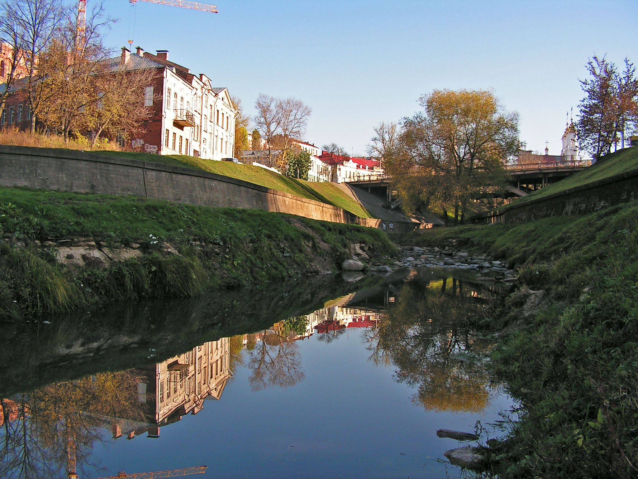 Vitba River in Vitebsk